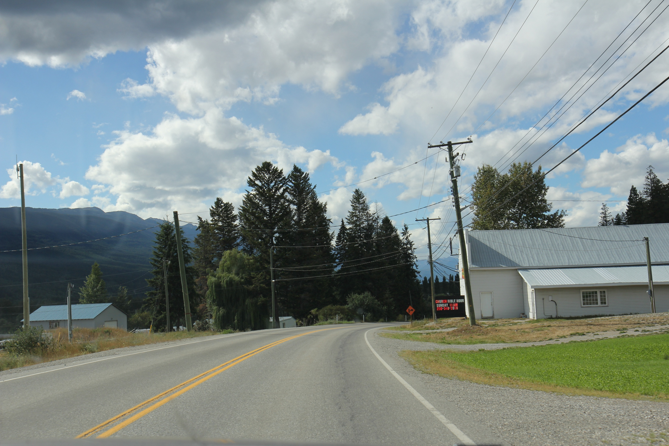 Looking northwest at some buildings in Parson, British Columbia on British Columbia Highway 95.